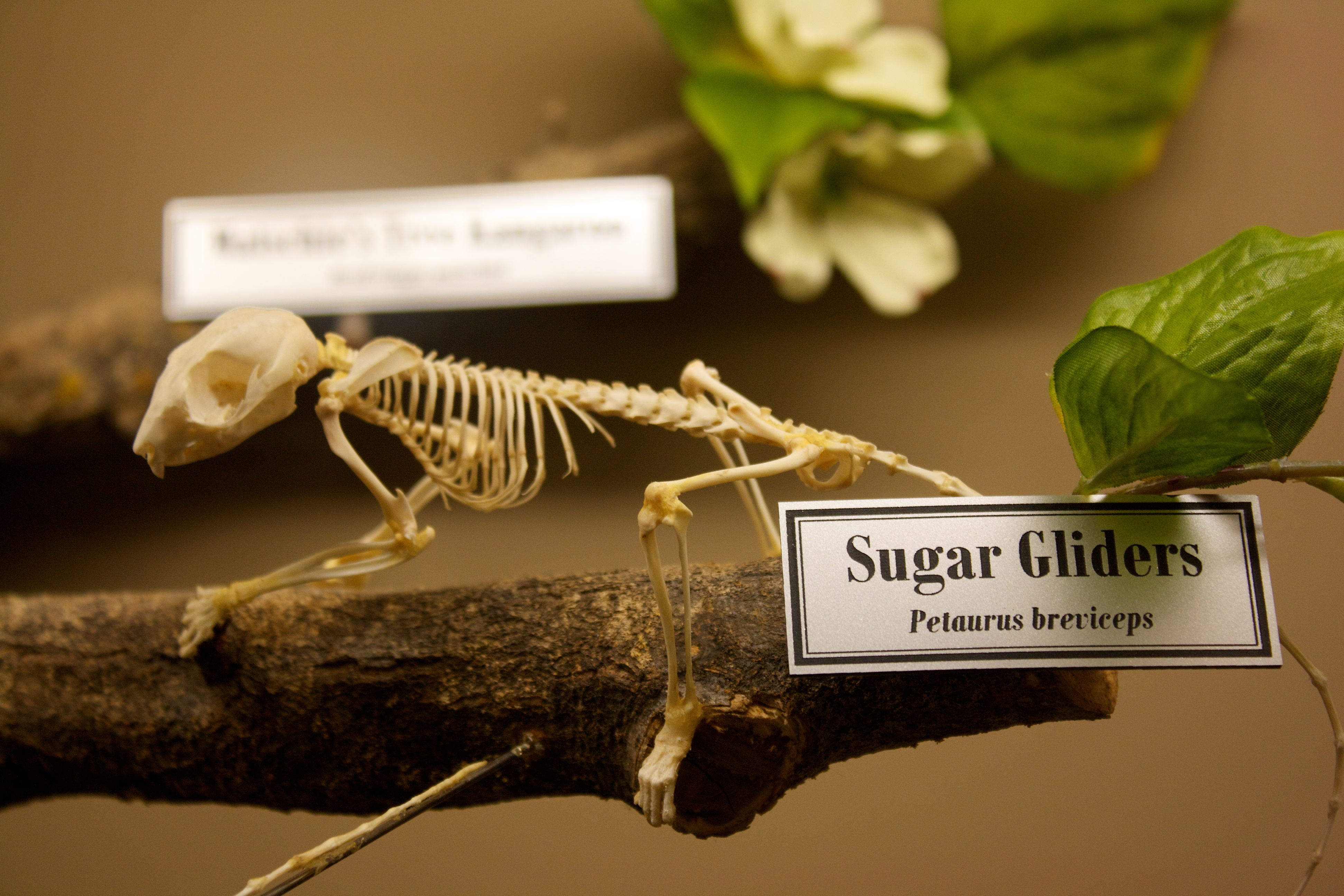 skeleton of a Petaurus breviceps at the Osteology Museum of Oklahoma